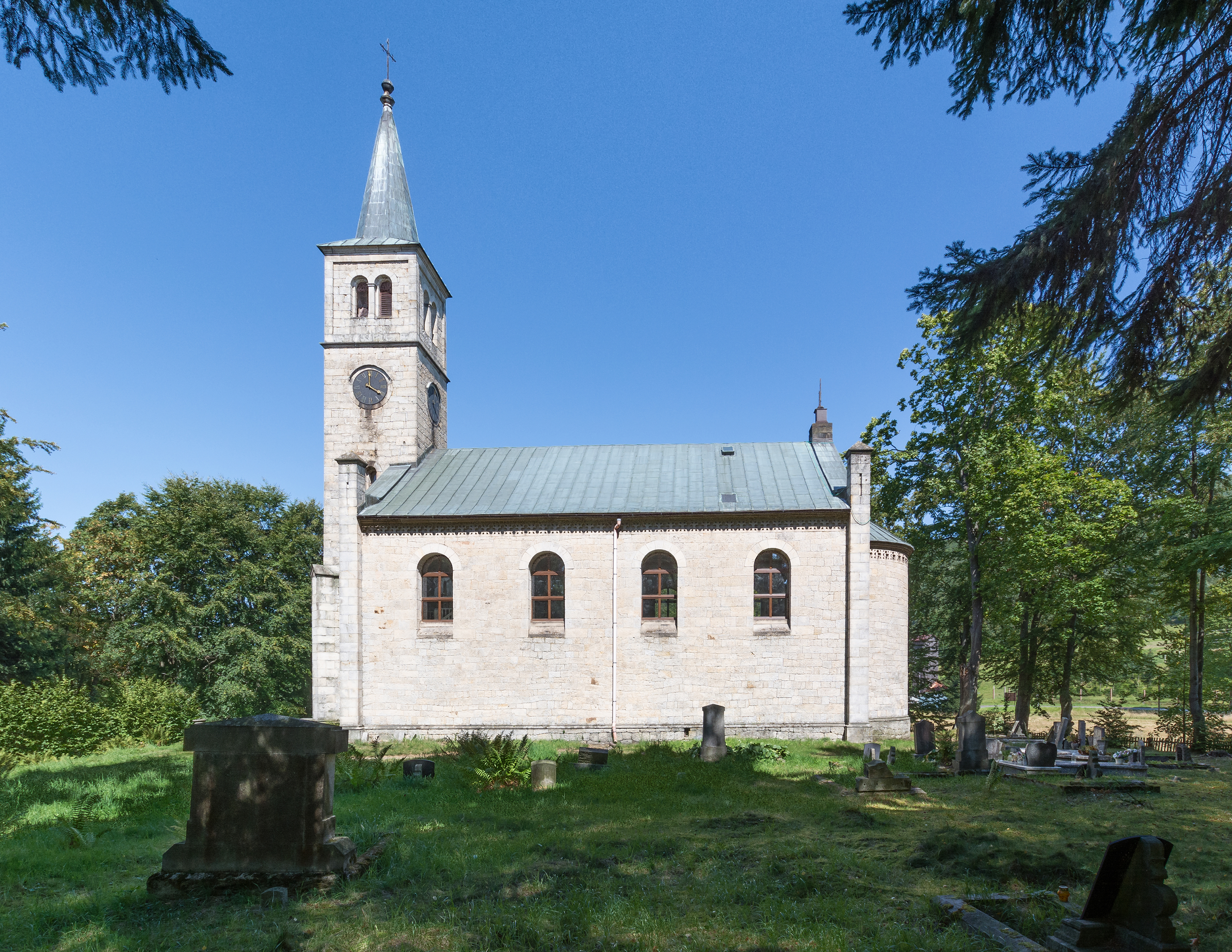 Reformed church in Pstrążna